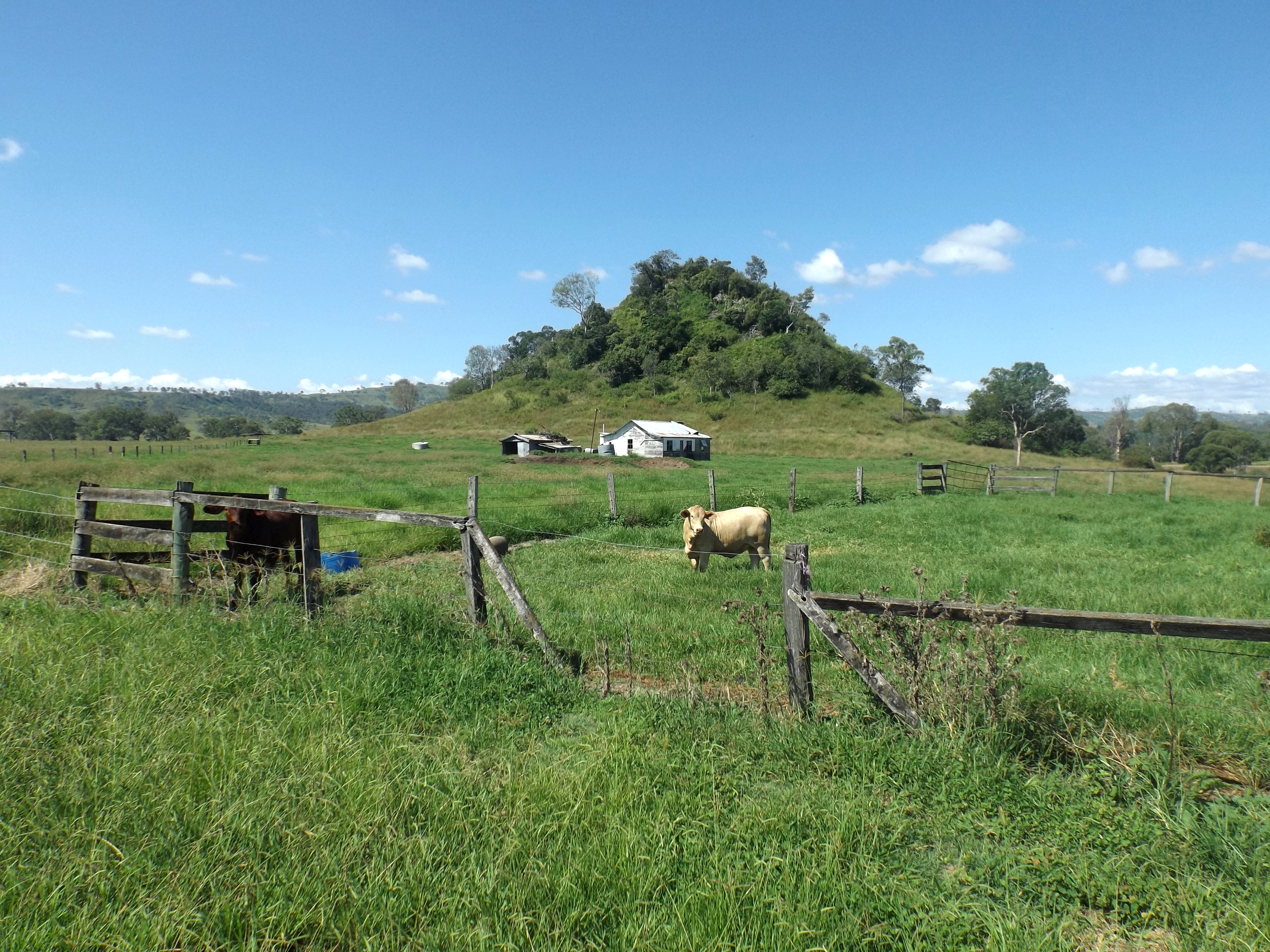 Photo of Round Mountain at Laravale, Scenic Rim Region, Queensland, Australia.